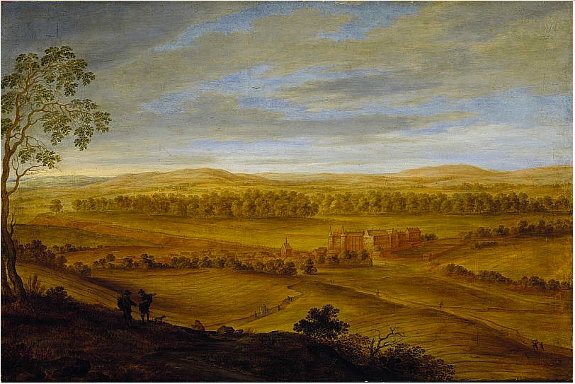 Falkland Palace and the Howe of Fife